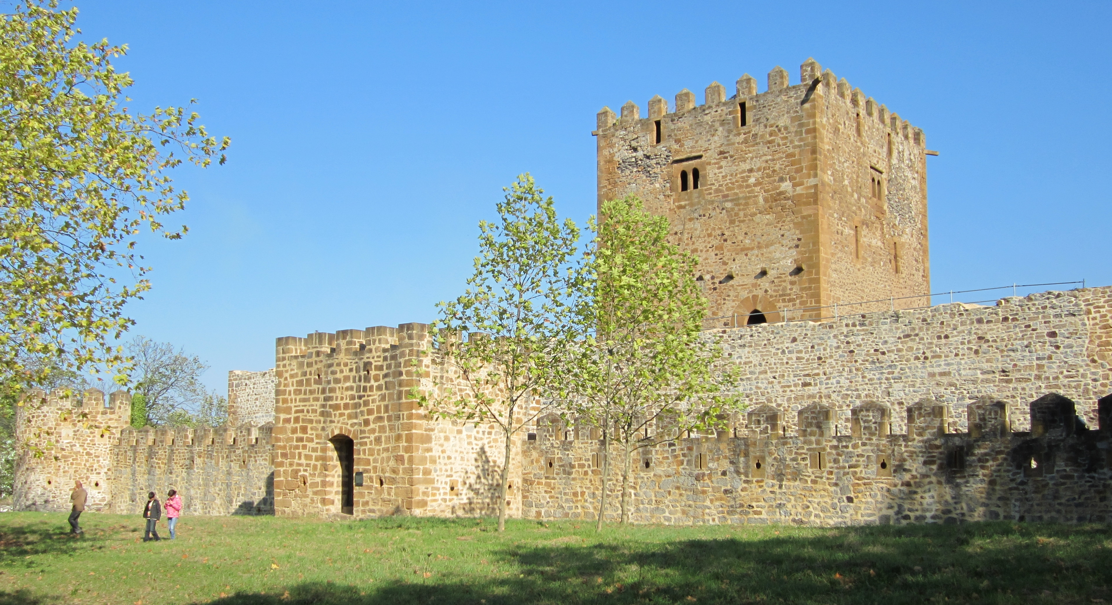 Main entrance and façade of Castle of Saint Martin of Muñatones, Muskiz, Biscay.